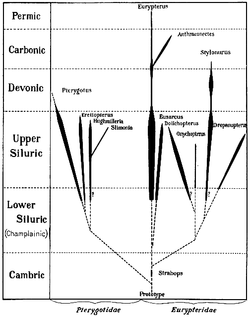 The Eurypterida of New York. Volume 1. New York State Museum Memoir 14, diagram [no page number] 1